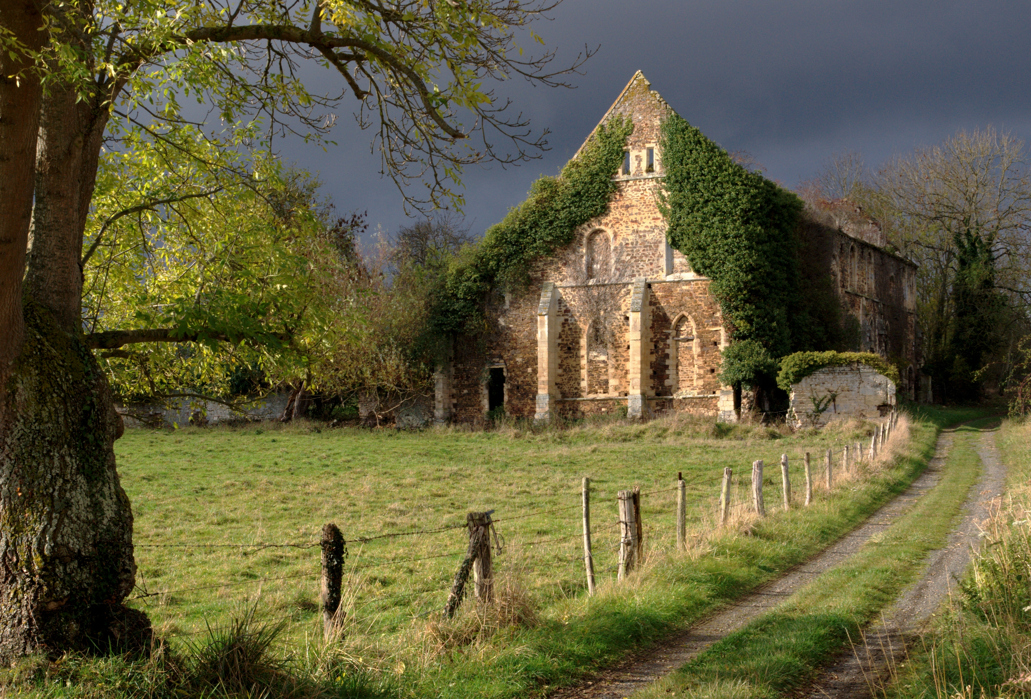 The ancient abbey of Barbery (Calvados, France).